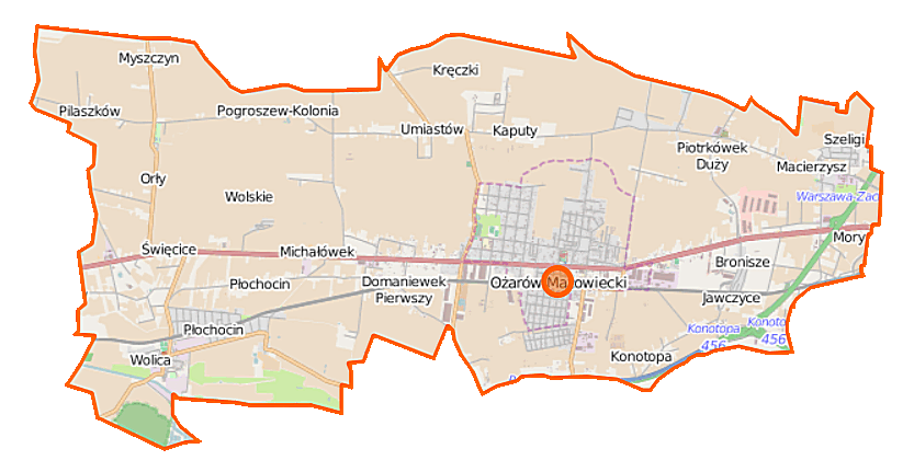 Map of Gmina Ożarów Mazowiecki, PolandThis map of Ożarów Mazowiecki (gmina) was created from OpenStreetMap project data, collected by the community. This map may be incomplete, and may contain errors. Don't rely solely on it for navigation.